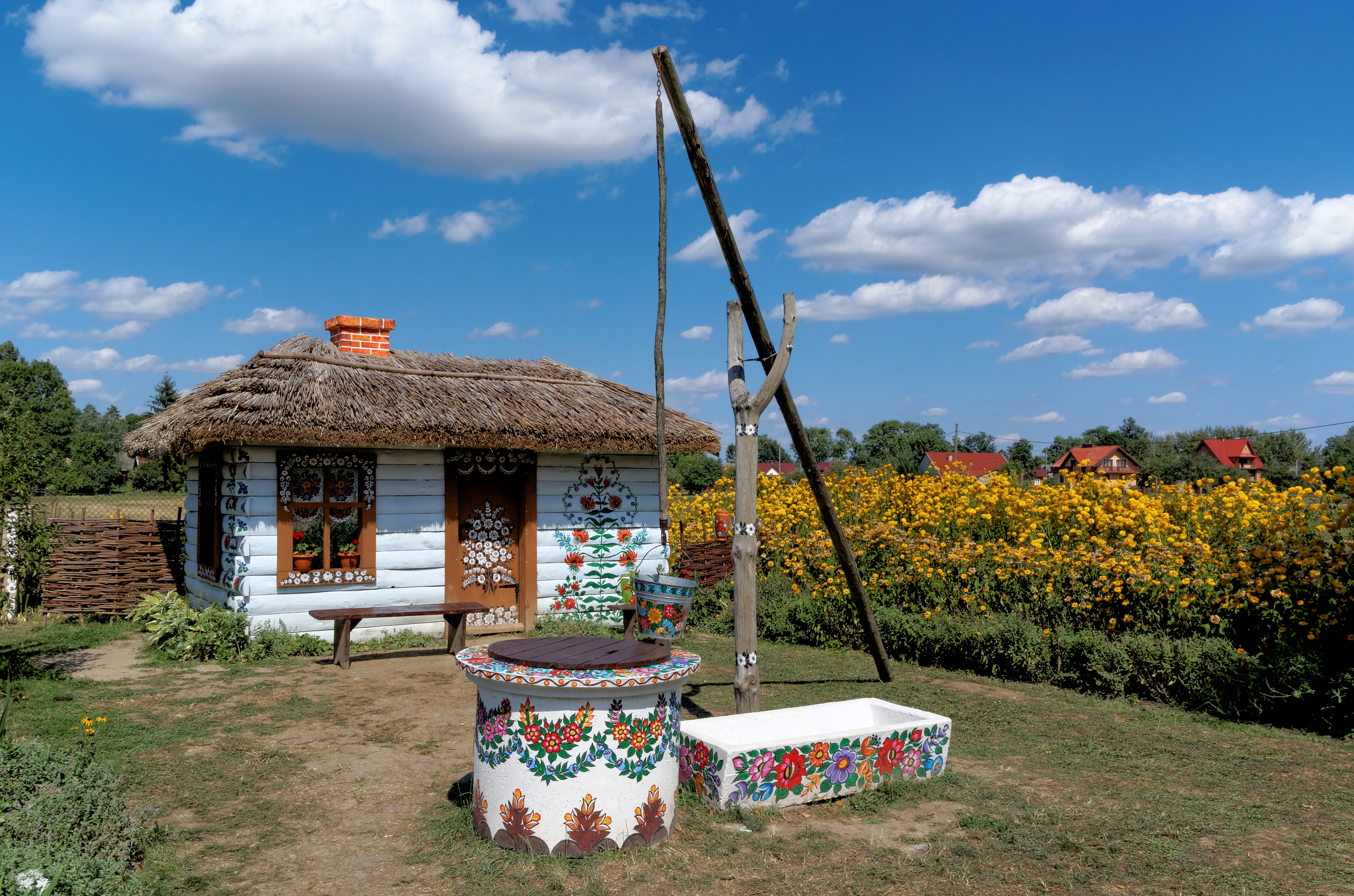 Zalipie - a well and a cottage in the front of the Paintresses' House